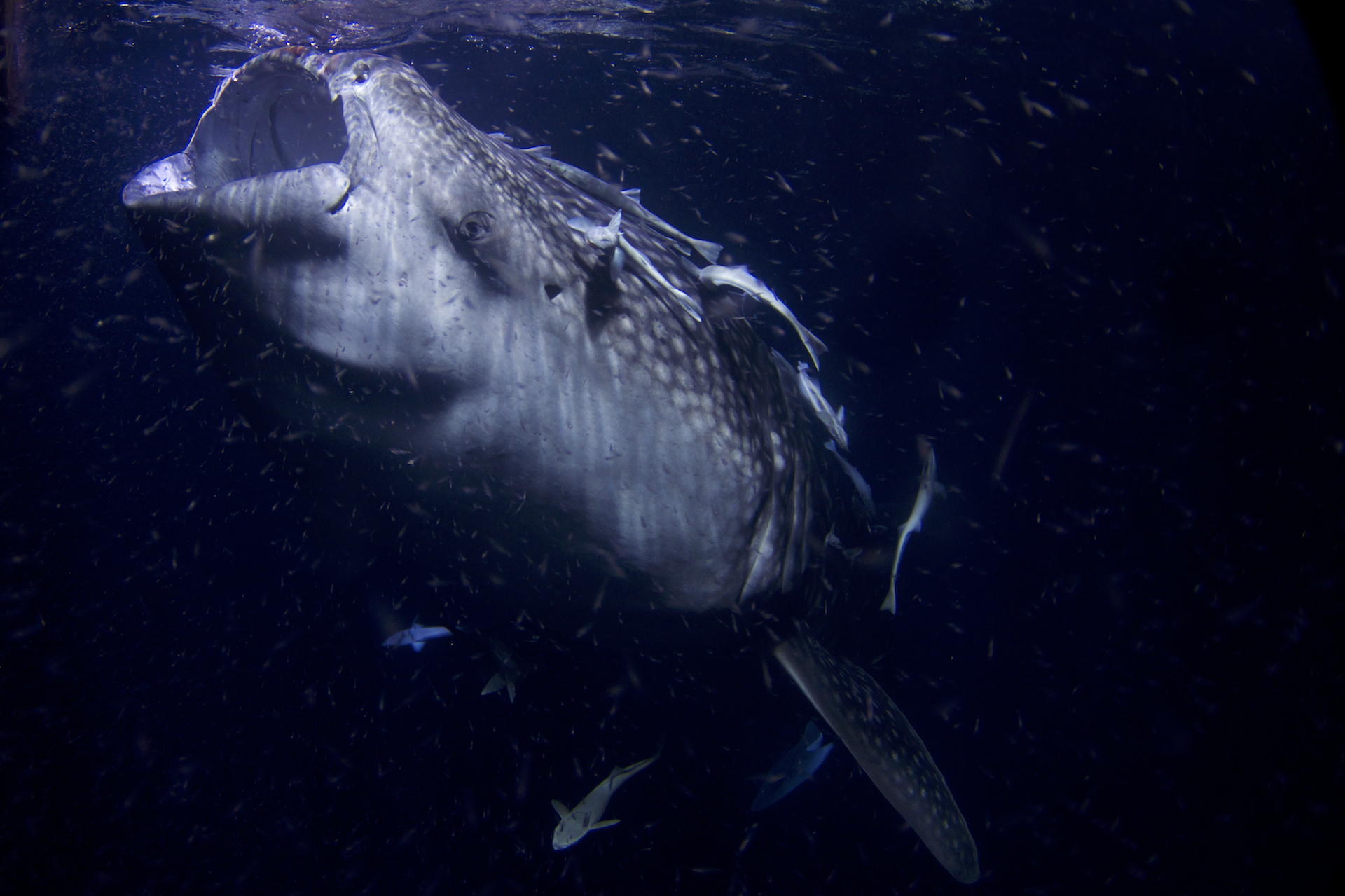 30ft-long whale Shark filtering plankton, in Maldives